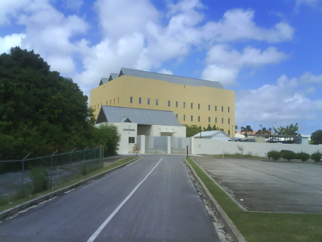 Building for the American Embassy; (for Barbados & the Eastern Caribbean) in Wildey, Barbados.